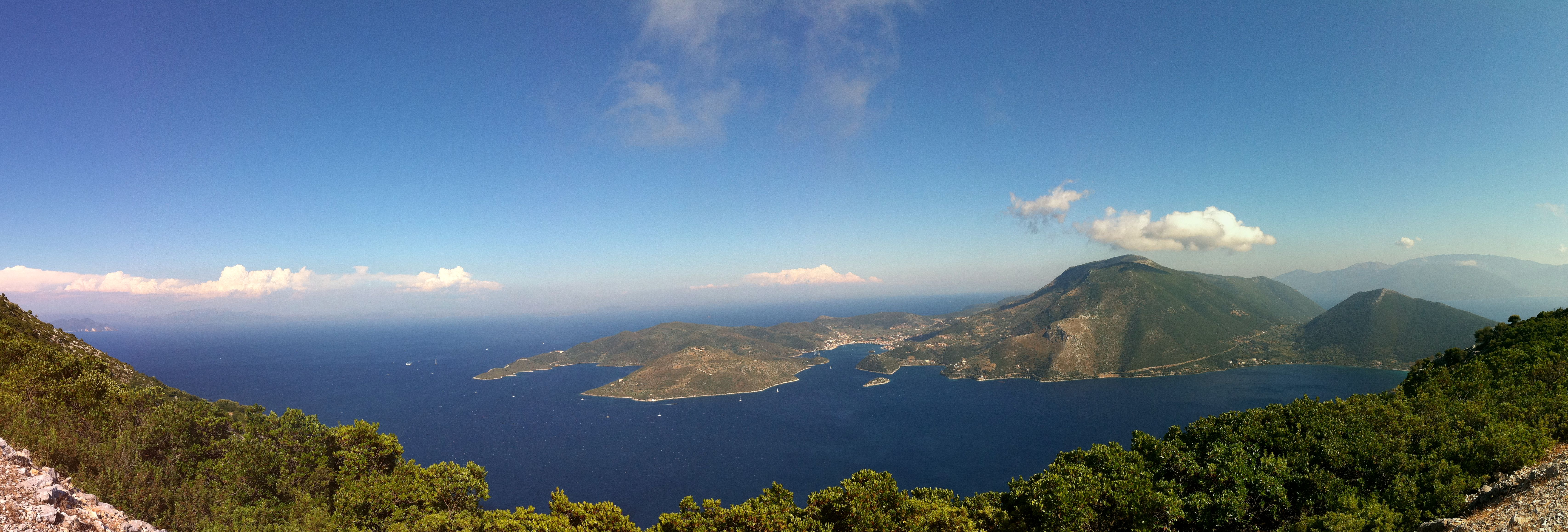 Back Camera